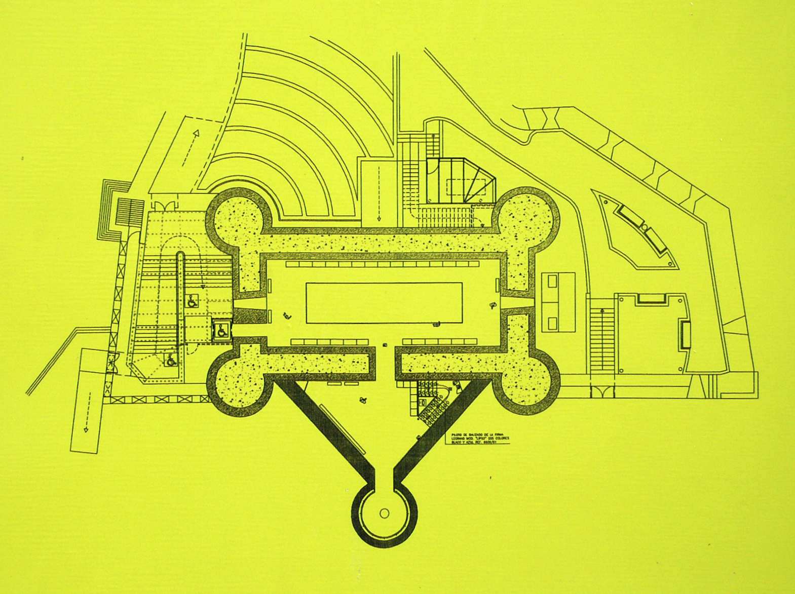 Blue print of the Castle of Castro Urdiales (Cantabria).